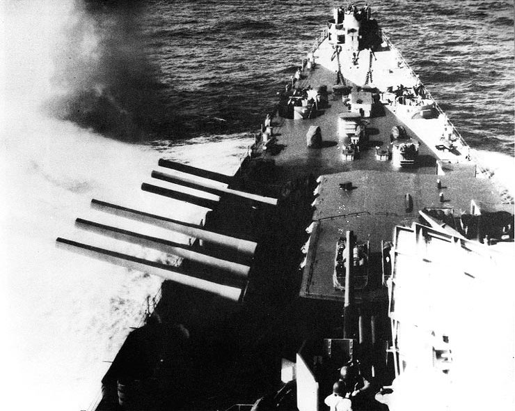 USS Guam (CB-2): Halftone photo of the ship's bow during main battery gunnery practice, 1944-45.